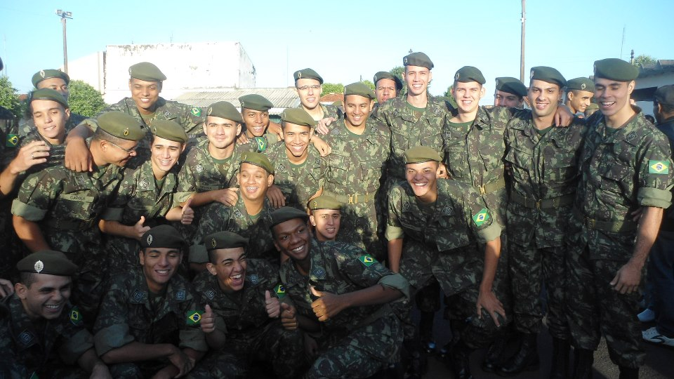 Dispensados após o término de uma das muitas instruções ocorridas